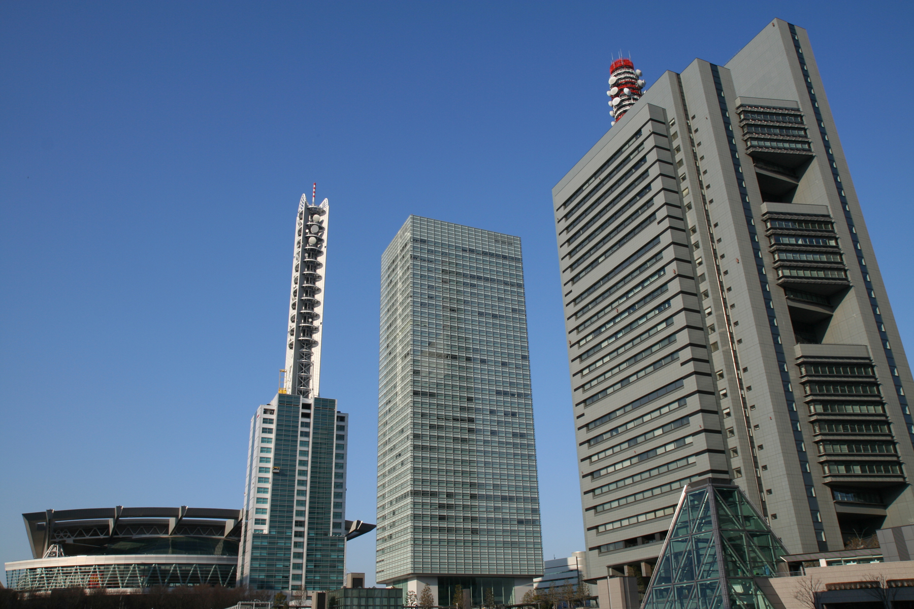 Japanese Saitama Shintoshin west building in Saitama, Saitama.Name of "Saitama Shintoshin" in english is not official name by Saitama Prefecture.Official name is "Saitama New Urban Center".